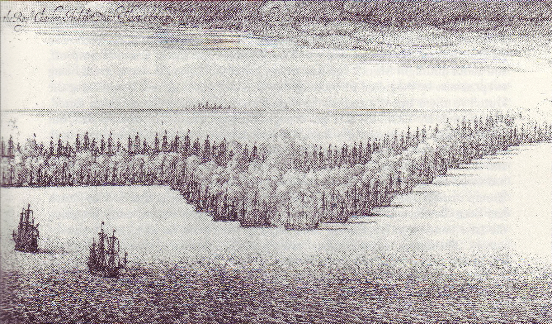 St. James Day Fight August 4th, 1666 between English and Dutch ships